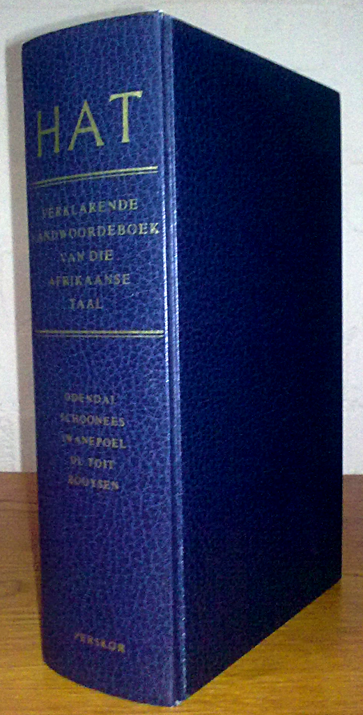 Verklarende Handwoordeboek van die Afrikaanse Taal. Tweede uitgawe, vierde druk - 1984